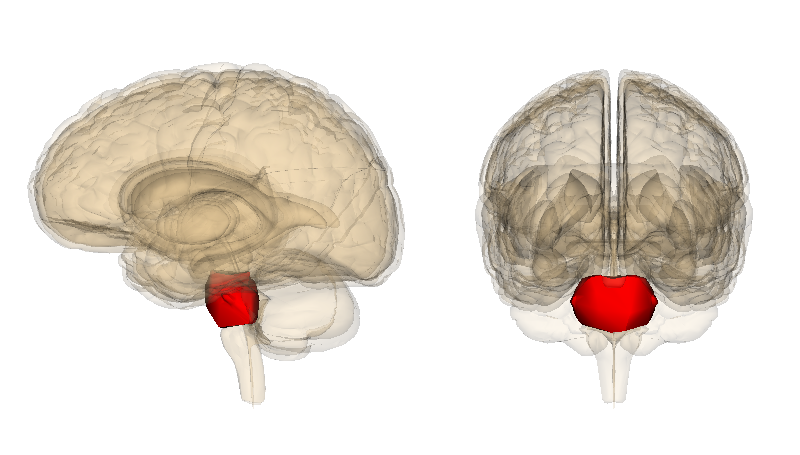 pons. Images are from Anatomography maintained by Life Science Databases(LSDB).